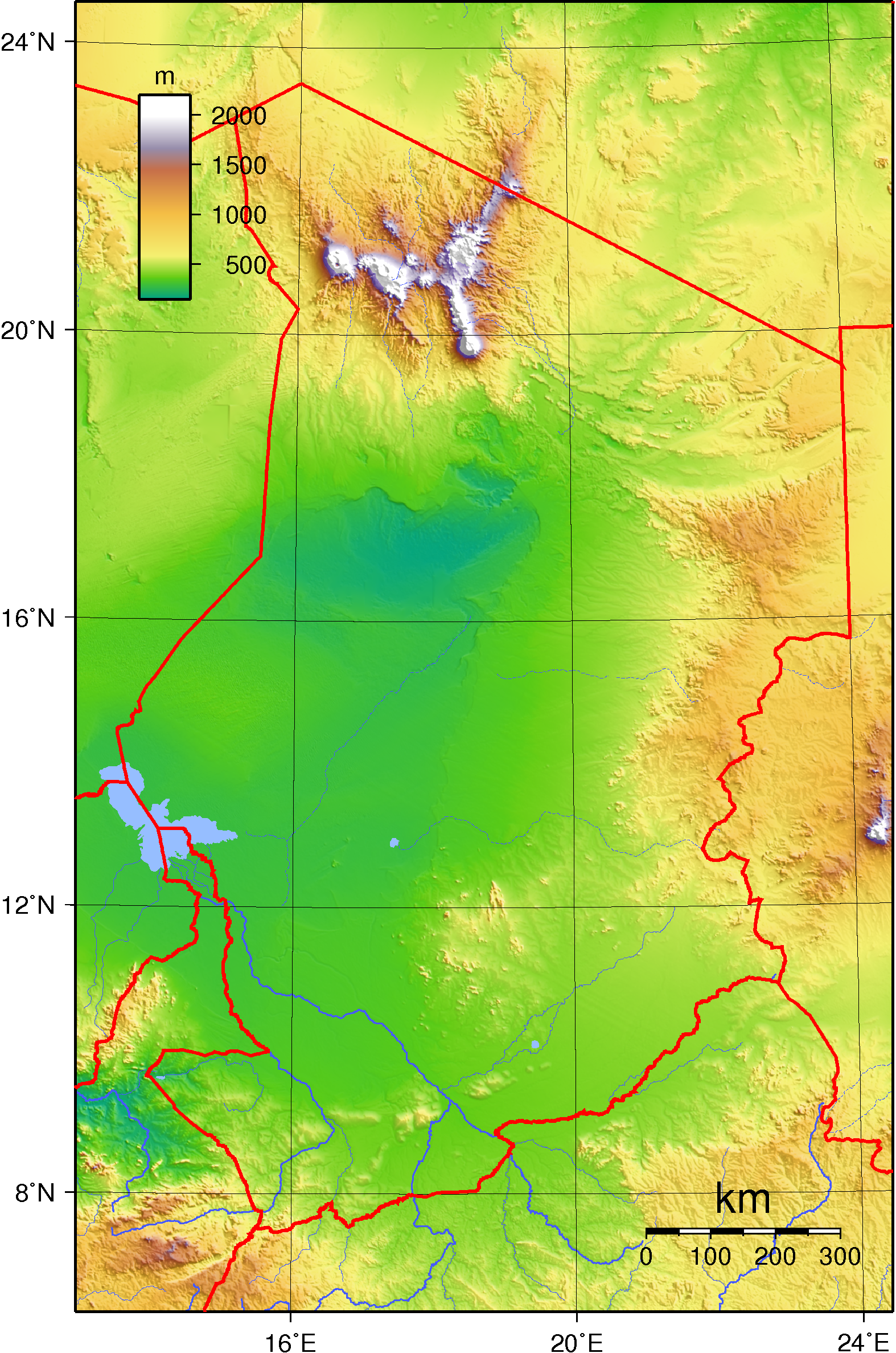 Topographic map of Chad. Created with GMT from GLOBE data.